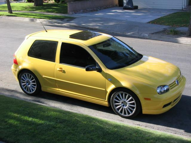 Volkswagen Golf Mk4 GTI